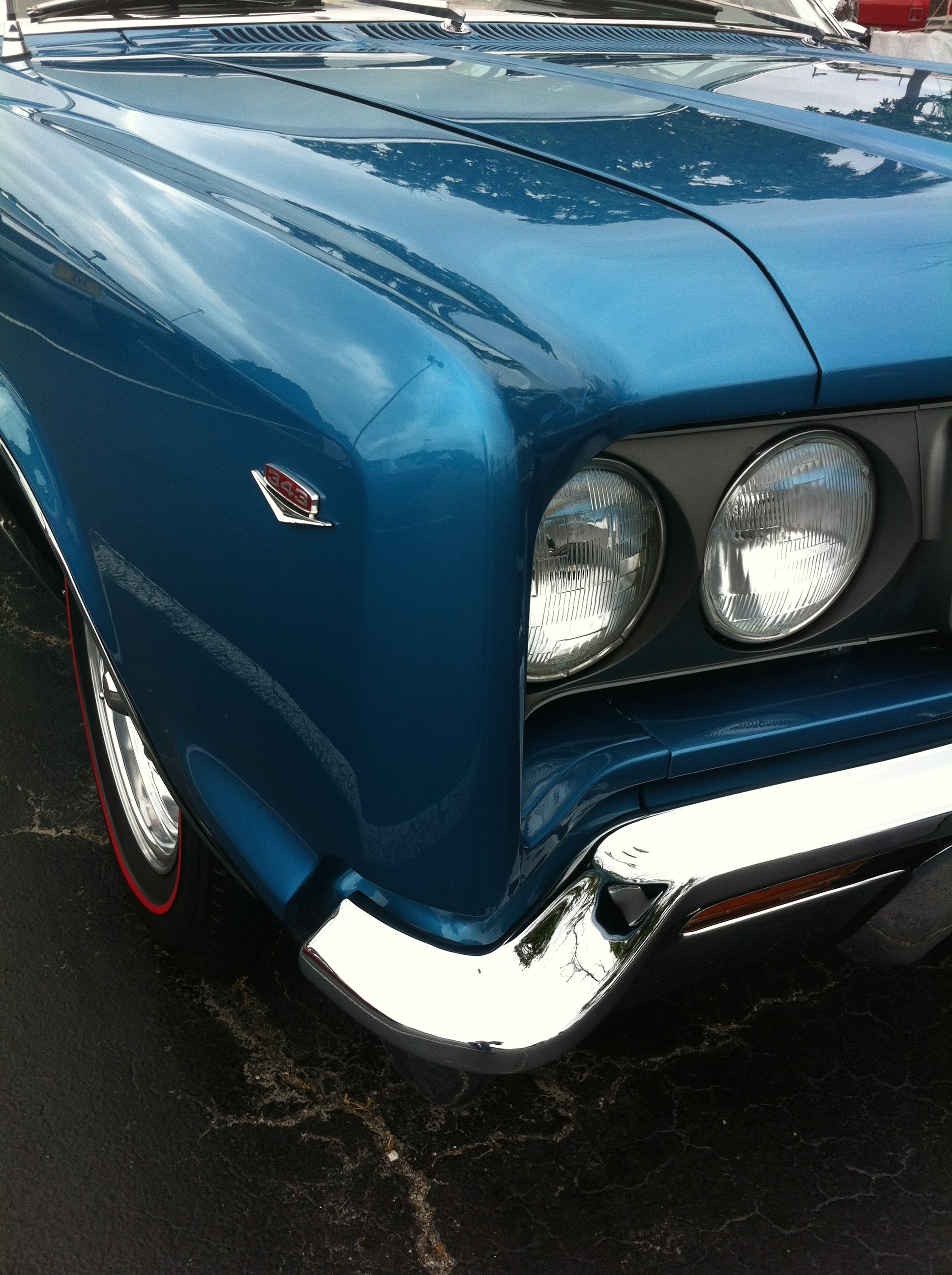 Detail of the right front fender and headlamps on a 1967 Rambler Rebel SST two-door hardtop made by American Motors Corporation (AMC). This car also has American Motors' new 343 cu in (5.6 L) 4-bbl V8 engine. Photographed at the 2014 American Motors Owners (AMO) convention that was held in North Charleston, North Carolina, USA.